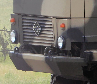 Ural-5323 military version